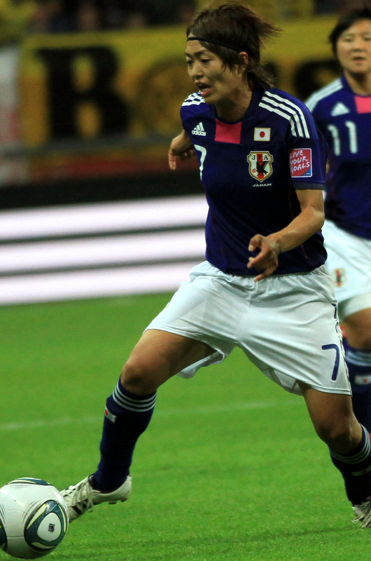 Kozue Ando playing for Japan in the 2011 FIFA Women's World Cup